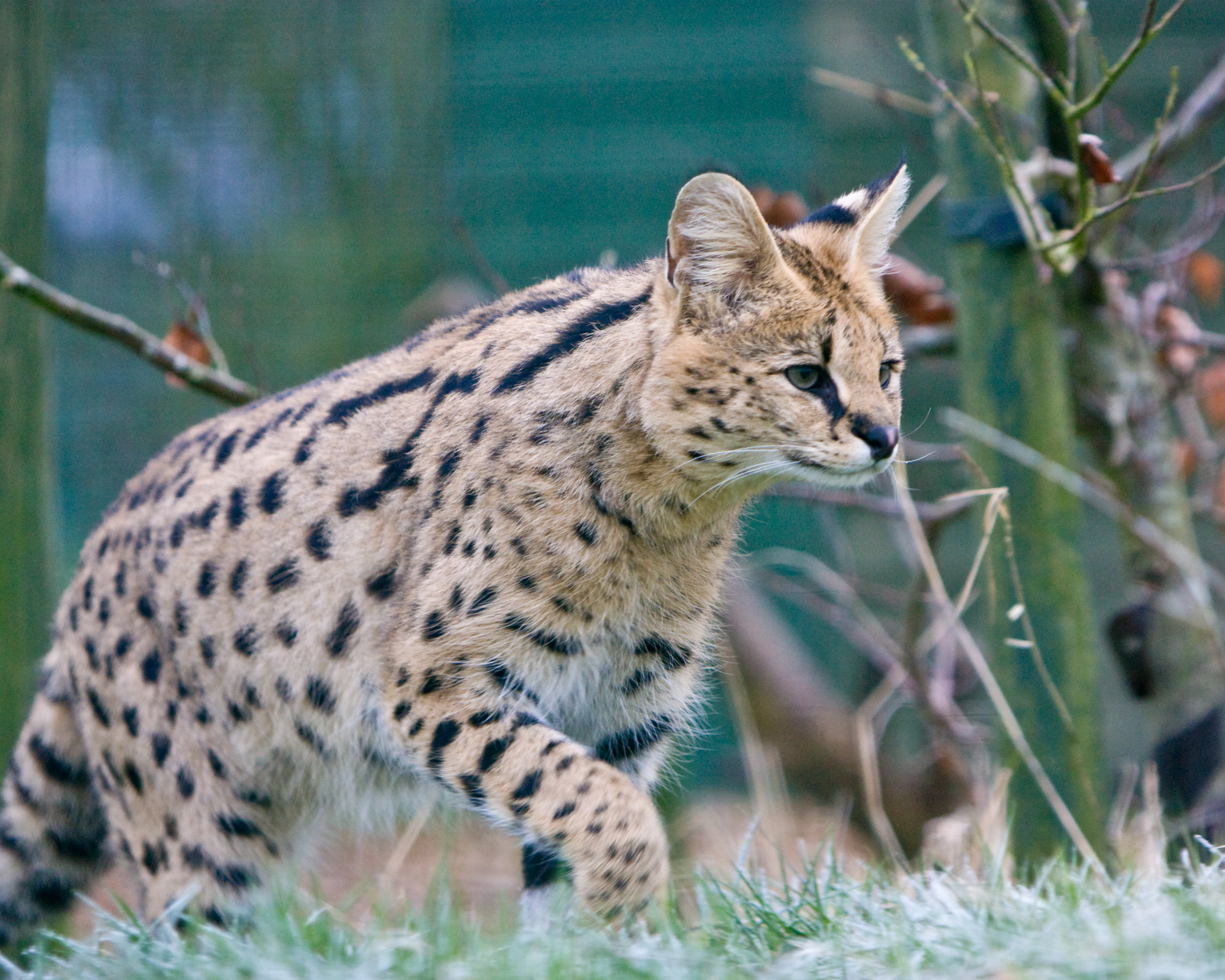 Malawi in the Frost